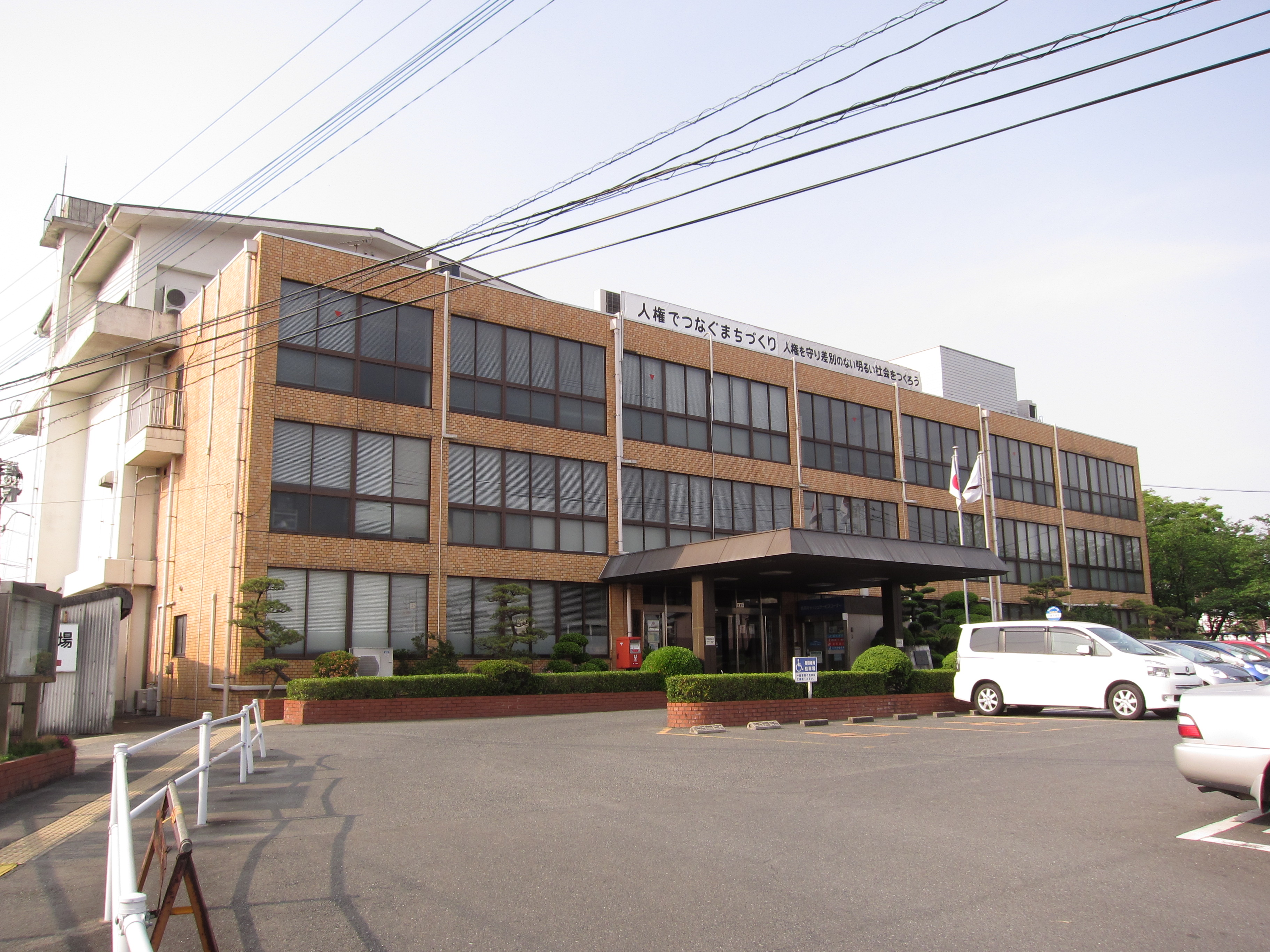 Ogori City Hall